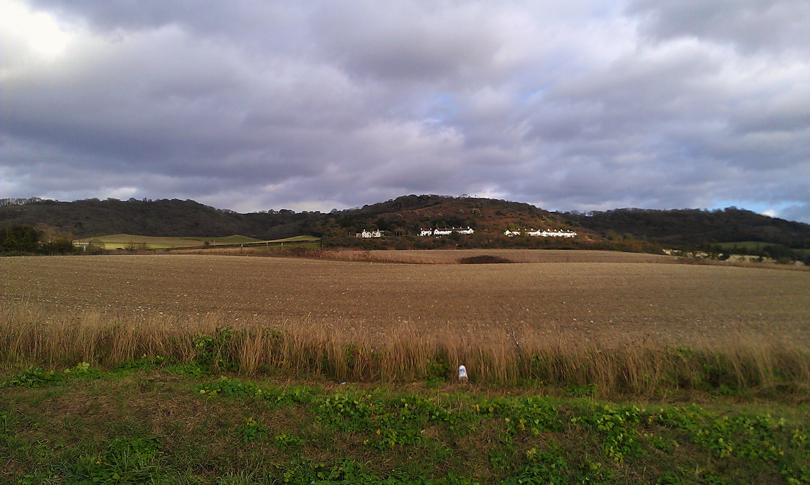 The Early Neolithic causewayed enclosure at Burham, Kent, near to the Medway Megaliths. The curve of the enclosure is evident in the brownsoil field.